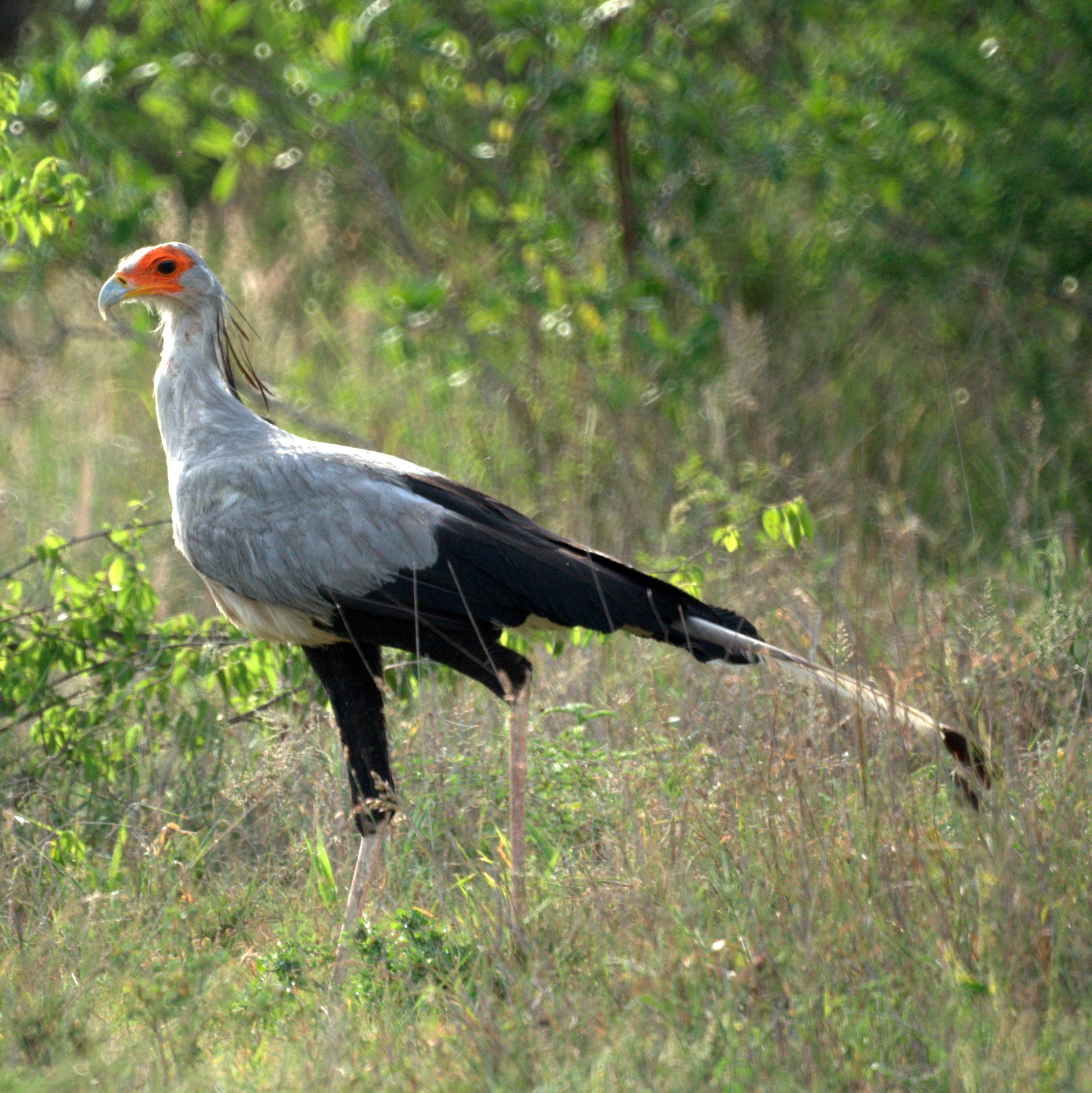 A Secretarybird at Kruger National Park, South Africa.